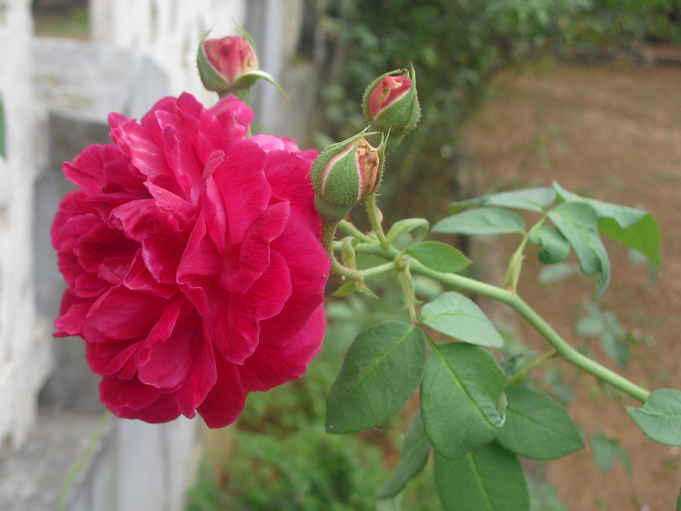 Rose flower